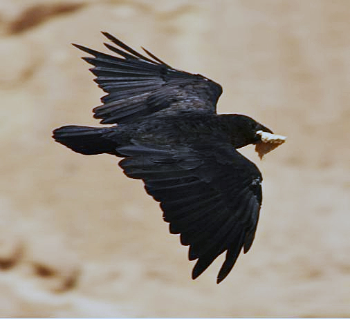 A fan-tailed raven (Corvus rhipidurus) with a piece of pita, Westbank (Israel)